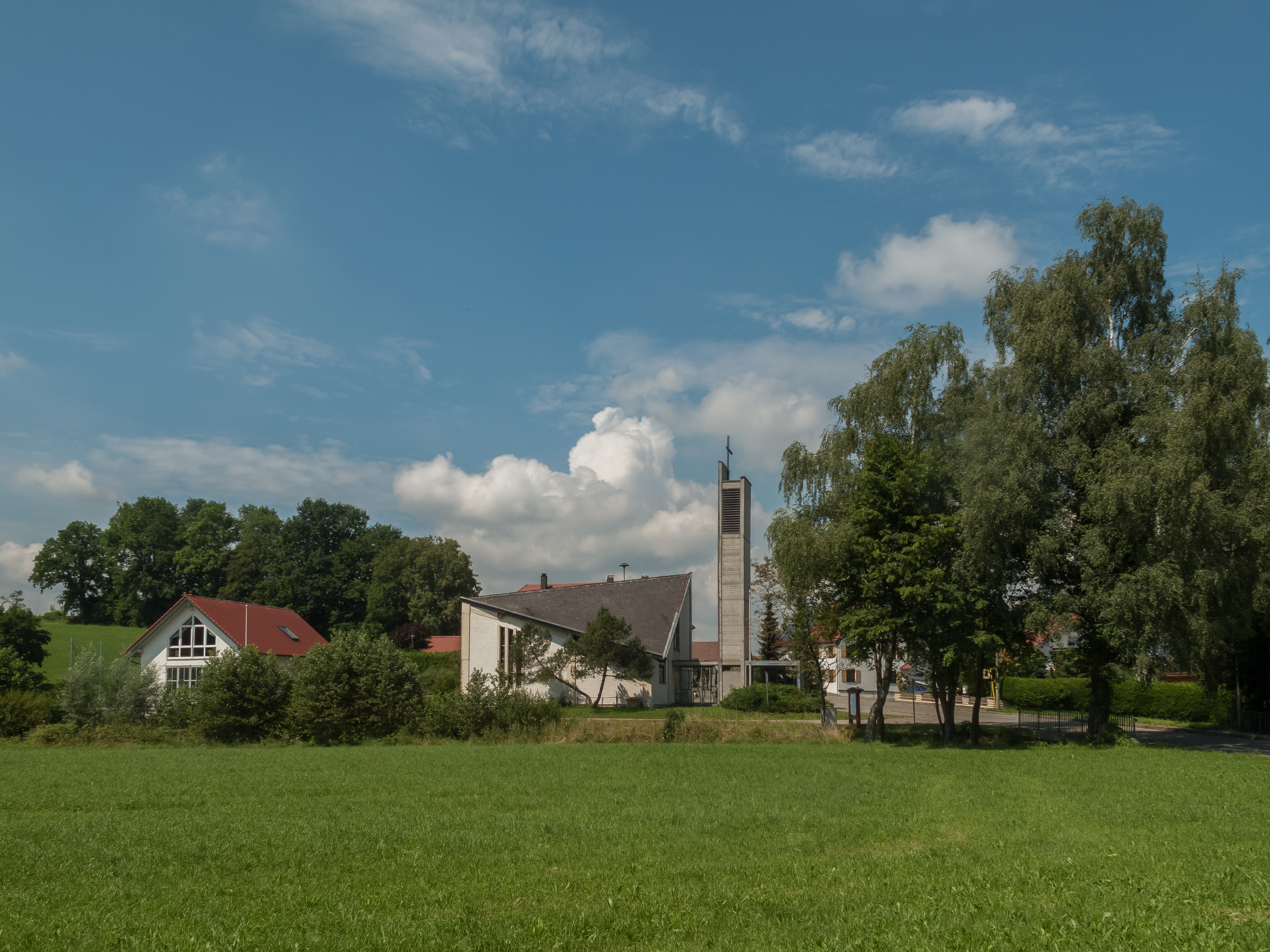 Spindelwag, church in the street